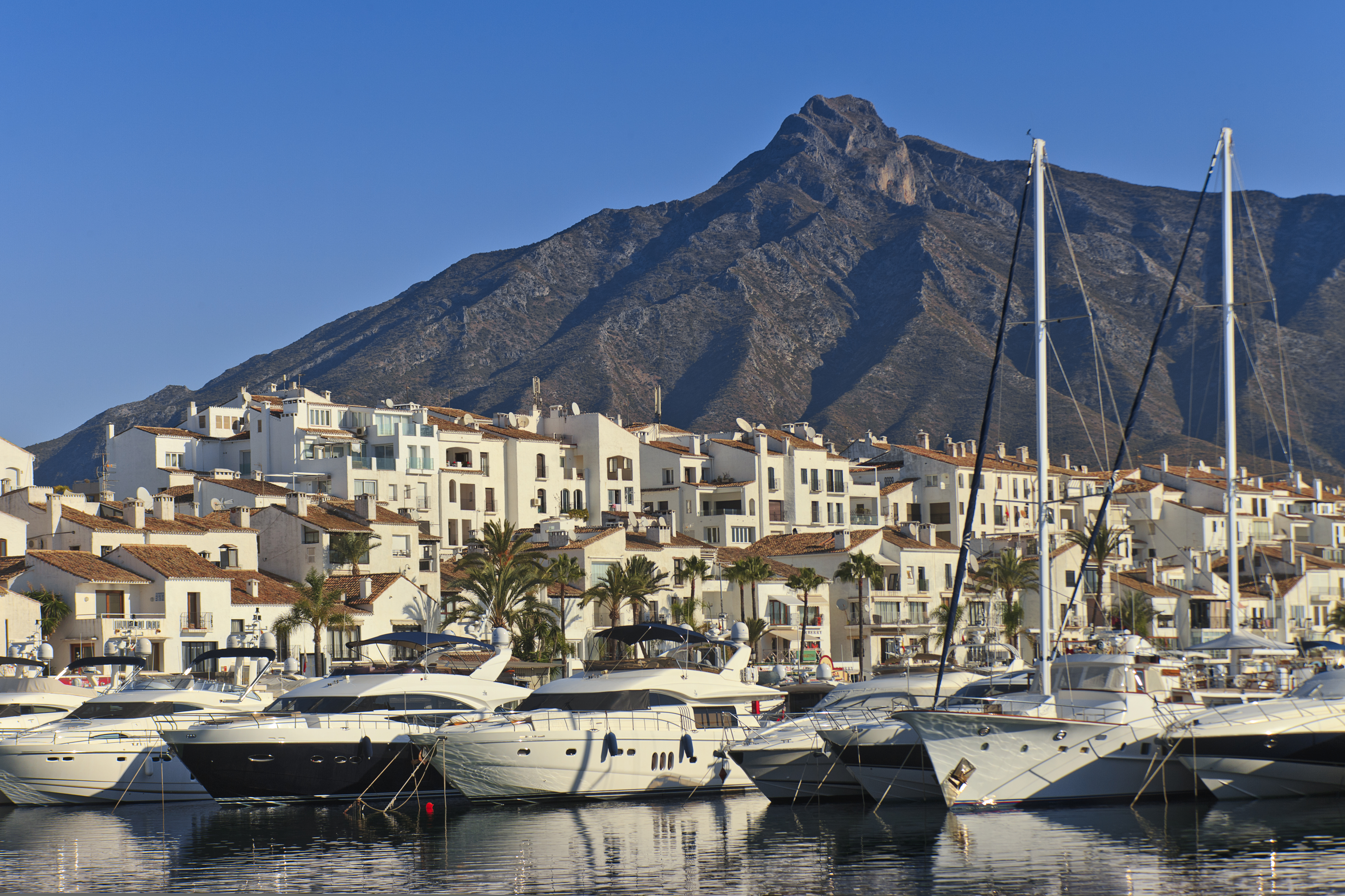 Puerto Banús, Marbella, Spain.